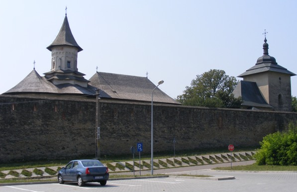 Monastery Probota, Bukovina north side